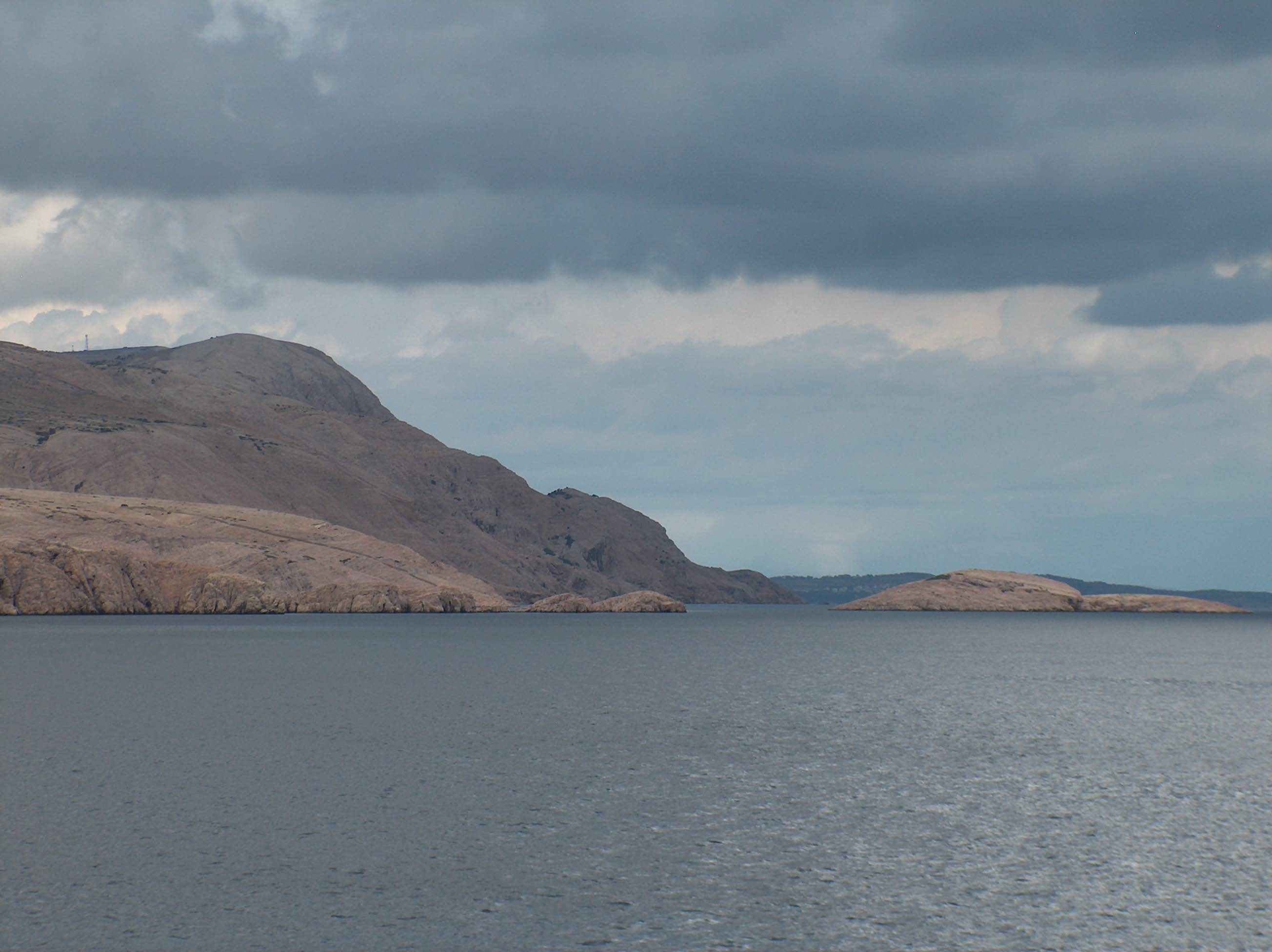 Isle of Rab, Croatia from Velebit Channel